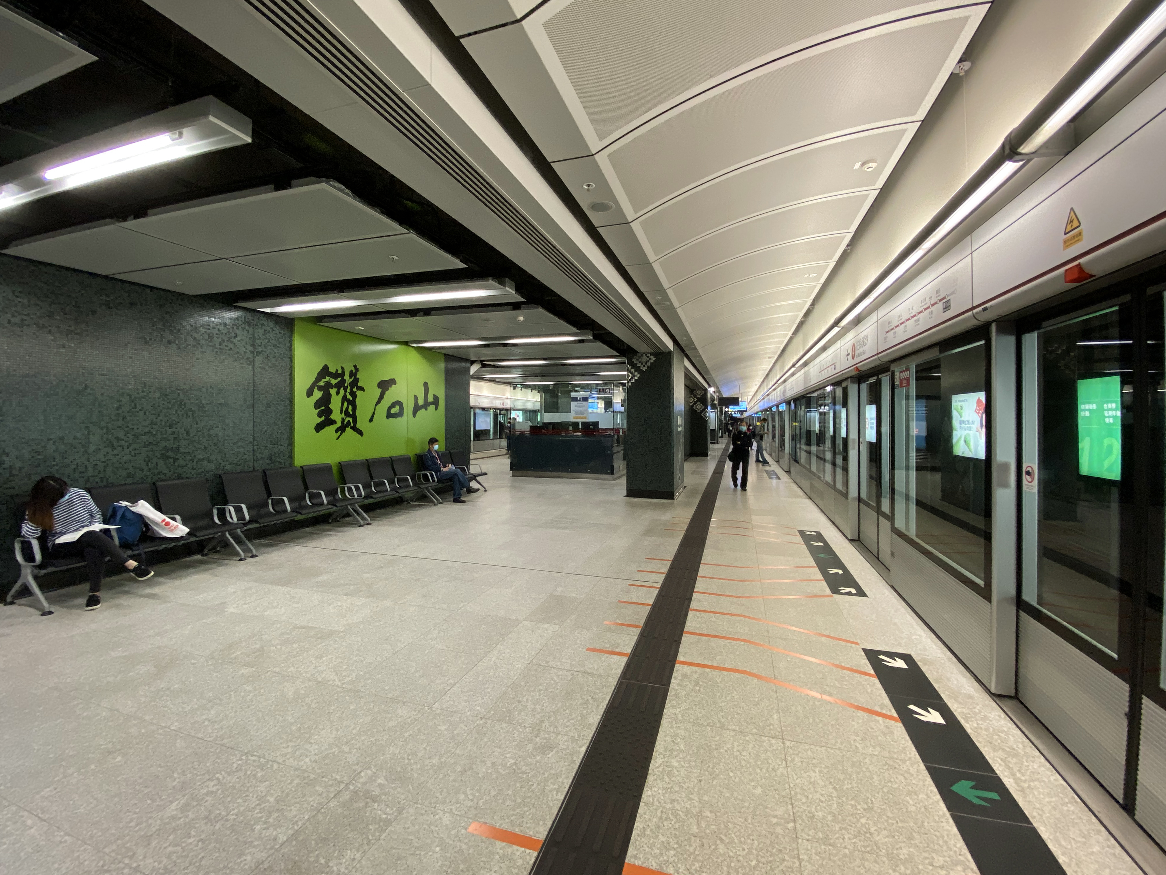 Diamond Hill Station Tuen Ma Line Platform